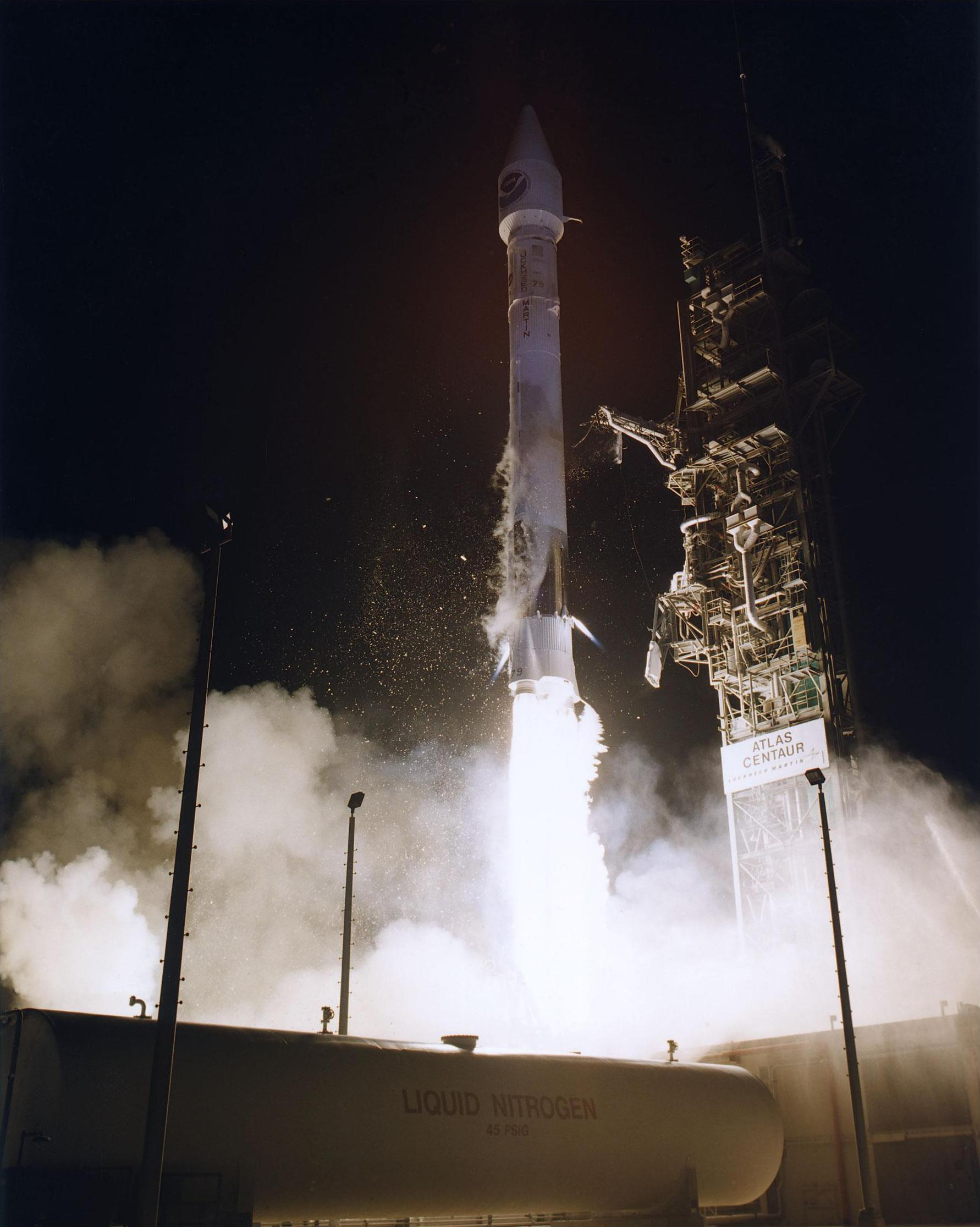 The GOES-K weather satellite lifts off from Launch Pad 36B at Cape Canaveral Air Station on an Atlas 1 rocket (AC-79) at 1:49 a.m. EDT April 25. The GOES-K is the third spacecraft to be launched in the new advanced series of geostationary weather satellites for the National Oceanic and Atmospheric Administration (NOAA). The GOES-K is built for NASA and NOAA by Space Systems/LORAL of Palo Alto, Calif. The advanced weather satellite was built and launched for NOAA under technical guidance and project management by NASA’s Goddard Space Flight Center. Once it is in geosynchronous orbit at 22,240 miles above the Earth’s equator at 105 degrees West Longitude and undergoes its final checkout, the GOES-K will be designated GOES-10. The primary objective of the GOES-K launch is to provide a full-capability satellite in an on-orbit storage condition to assure NOAA backup continuity in weather coverage of the Earth in case one of the existing two operational GOES satellites now in orbit begins to malfunction